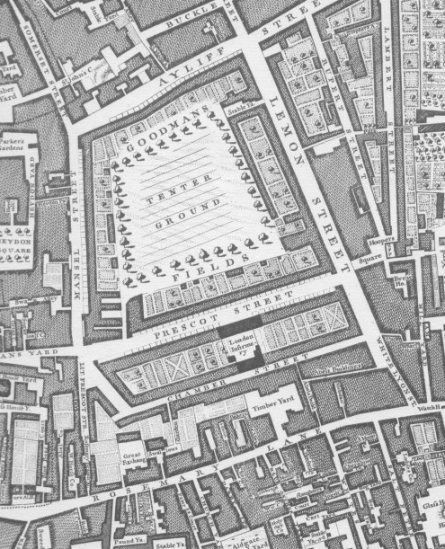 Map image of Goodman's field in 1746